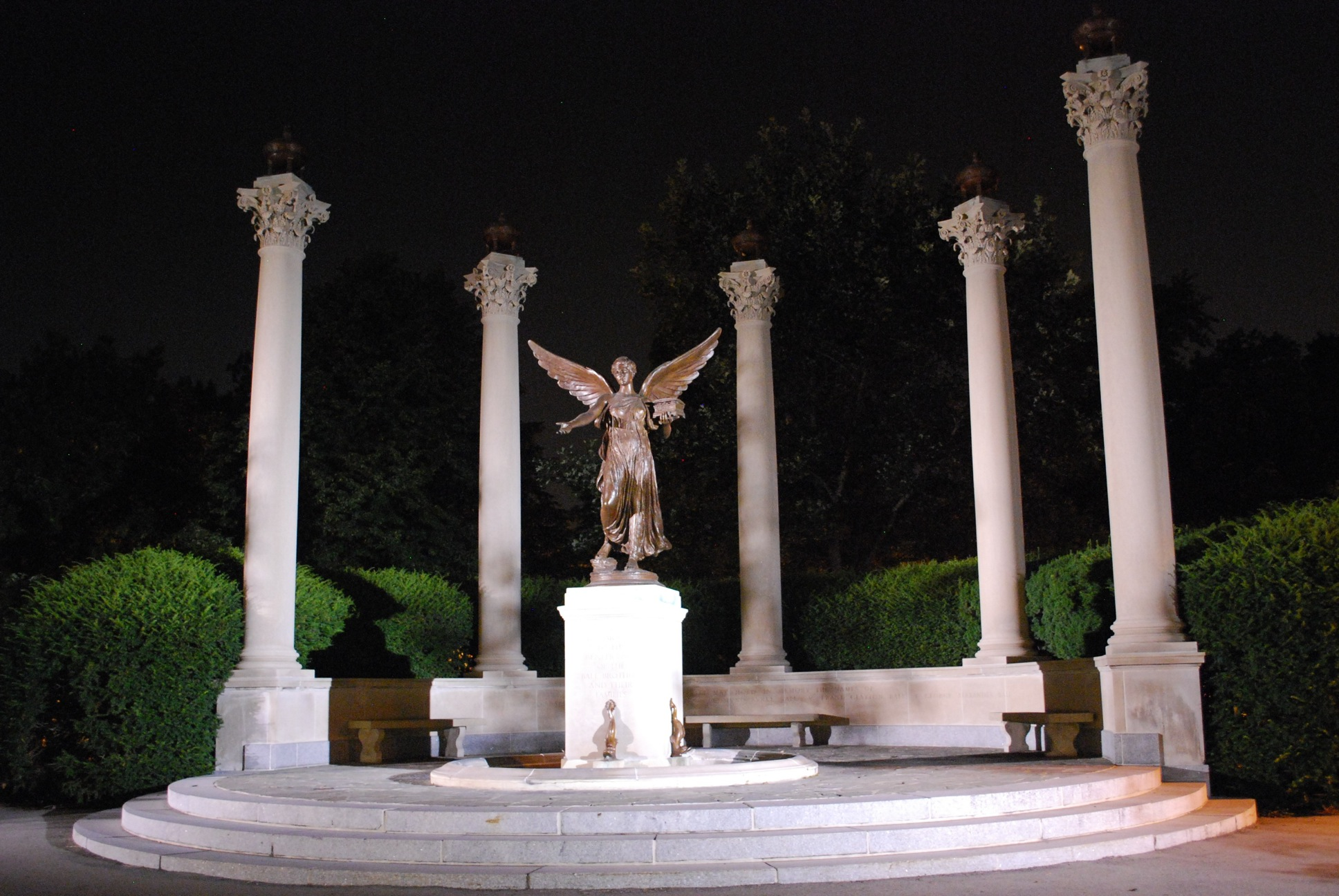 Beneficence and colonnade at night